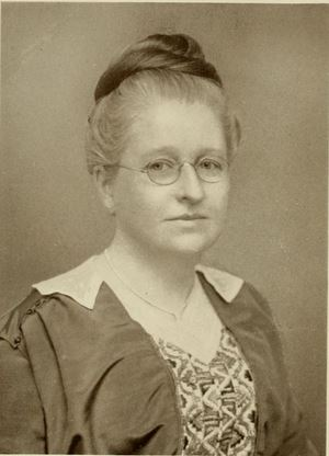 Louise McNair, Kajiwara Photo, Johnson, Anne (André) "Mrs. Charles P. Johnson", 1871-. Notable women of St. Louis, 1914; (Kindle Location 4402). [St. Louis, Woodward.]